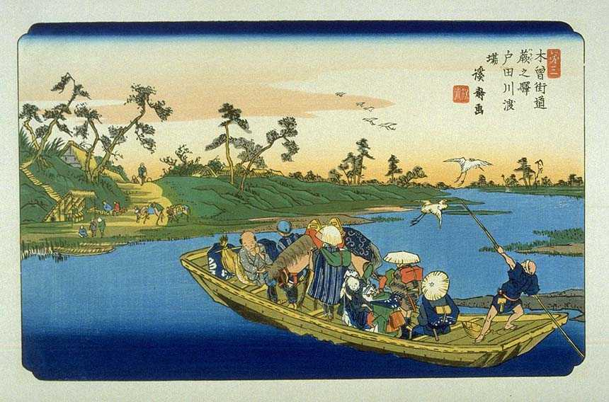 Warabi on the Kisokaido, ukiyo-e prints by Keisai Eisen